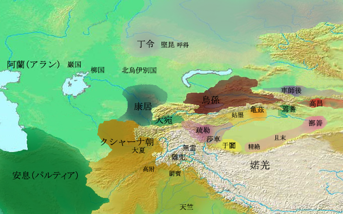 Xiyu City-States in the 3rd century.